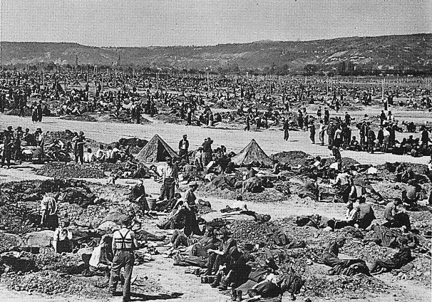 Self descriptive as it contains a caption. The Sinzig enclosure was one of several camps along the Rhine in Germany (Rheinwiesenlager) where German prisoners, many of which were not given Geneva Convention protection (Disarmed Enemy Forces), were kept during the summer and autumn of 1945 under very poor conditions, with many thousands dying as a consequence thereof. The US Army prohibited the International Committee of the Red Cross (ICRC) from providing aid and visit/investigate US prisoner camps in Germany until 1946.[1]